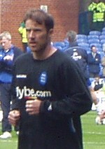 Kenny Cunningham, then of Birmingham City F.C., warms up before the Premier League game away against Everton